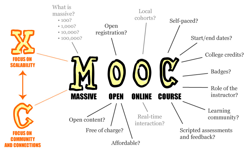 MOOC poster April 4, 2013 by Mathieu Plourde licensed CC-BY on Flickr, explores the meaning of "Massive Open Online Courses" aka MOOCs. This has been used in a reliable source, , so it's not just original artwork, but was licensed CC-BY first.